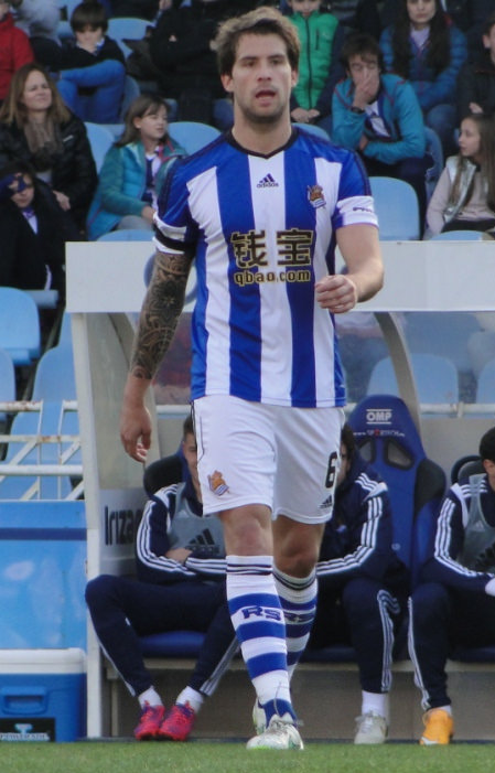 Inigo Martinez playing for Real Sociedad in 2015